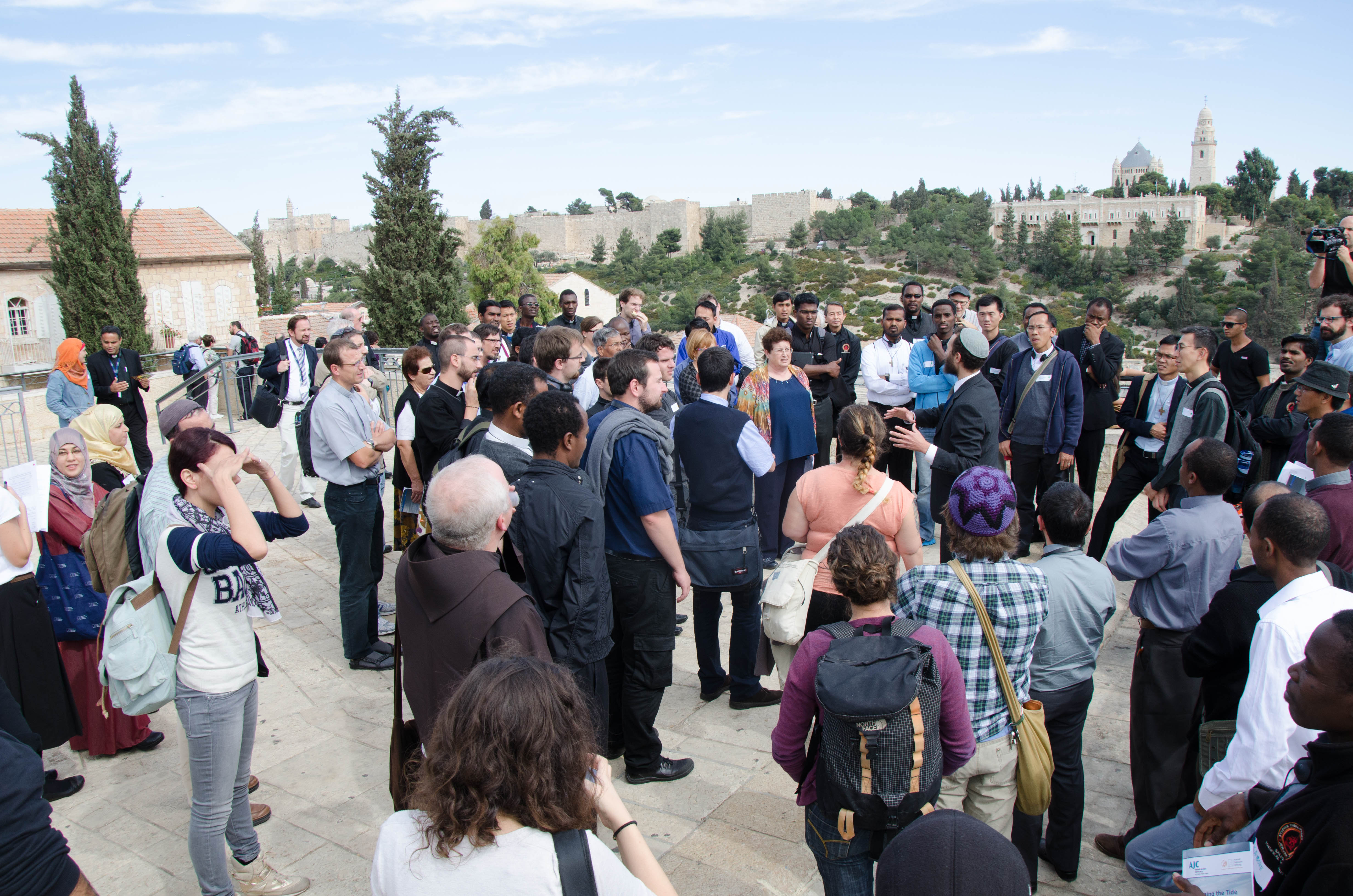 Faith and Ecology Conference for Seminarians in Jerusalem, 2014